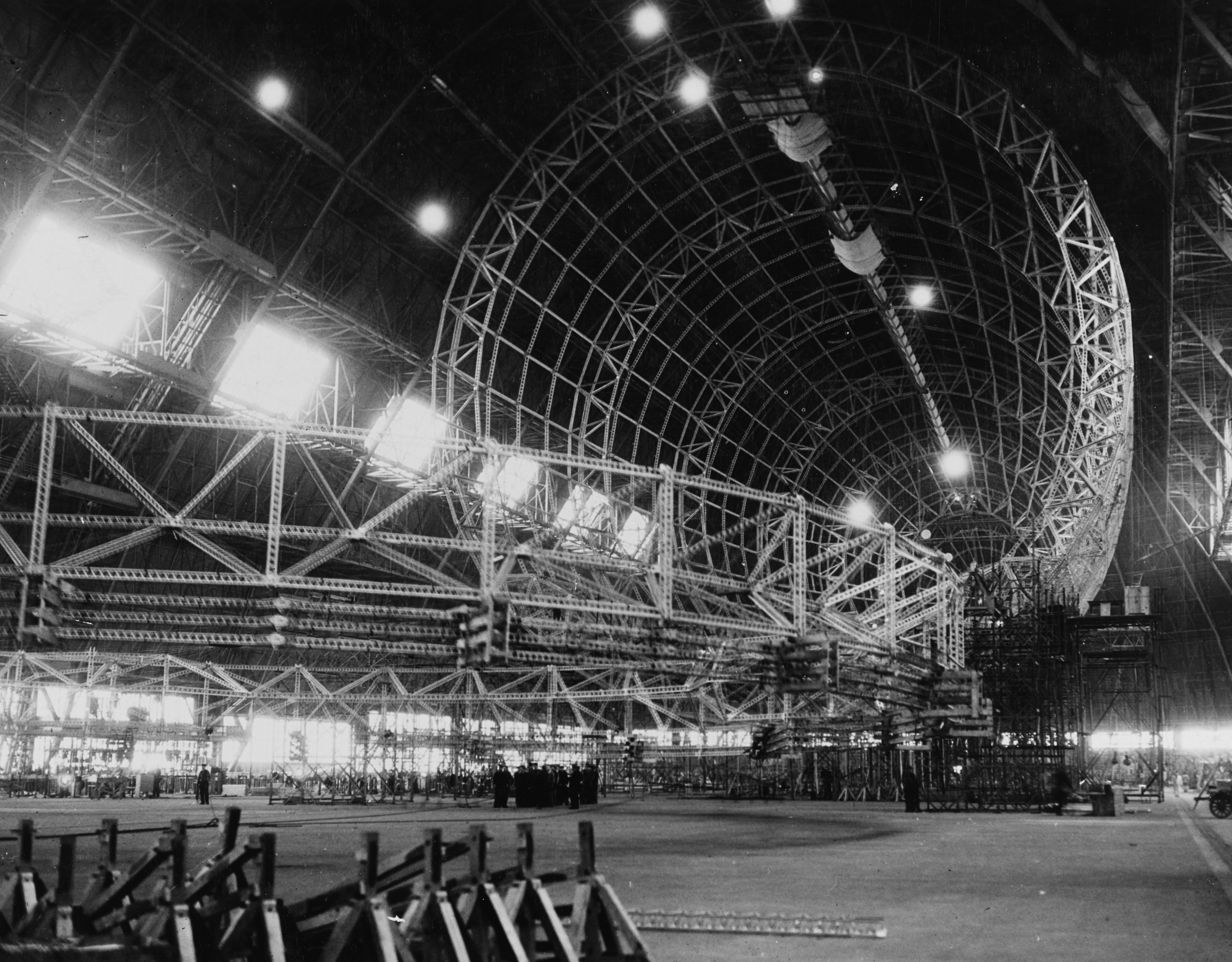 USS Macon (ZRS-5) Under construction in the Goodyear-Zeppelin Corporation hangar at Akron, Ohio